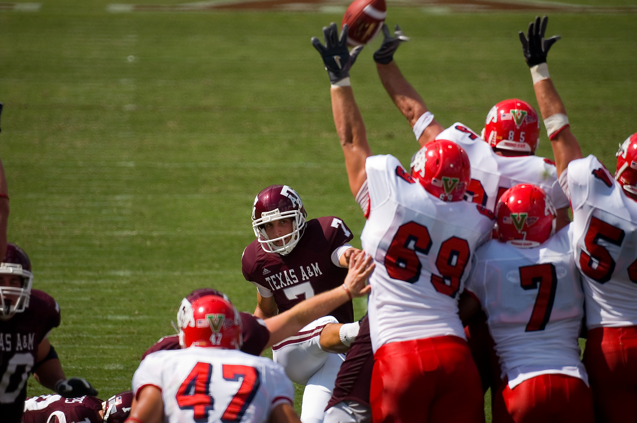 Fresno State blocks an attempt by the Aggies at an early field goal. Texas A&M Aggies vs Fresno State - September 8th, 2007 in College Station, Texas.Blocked Kick